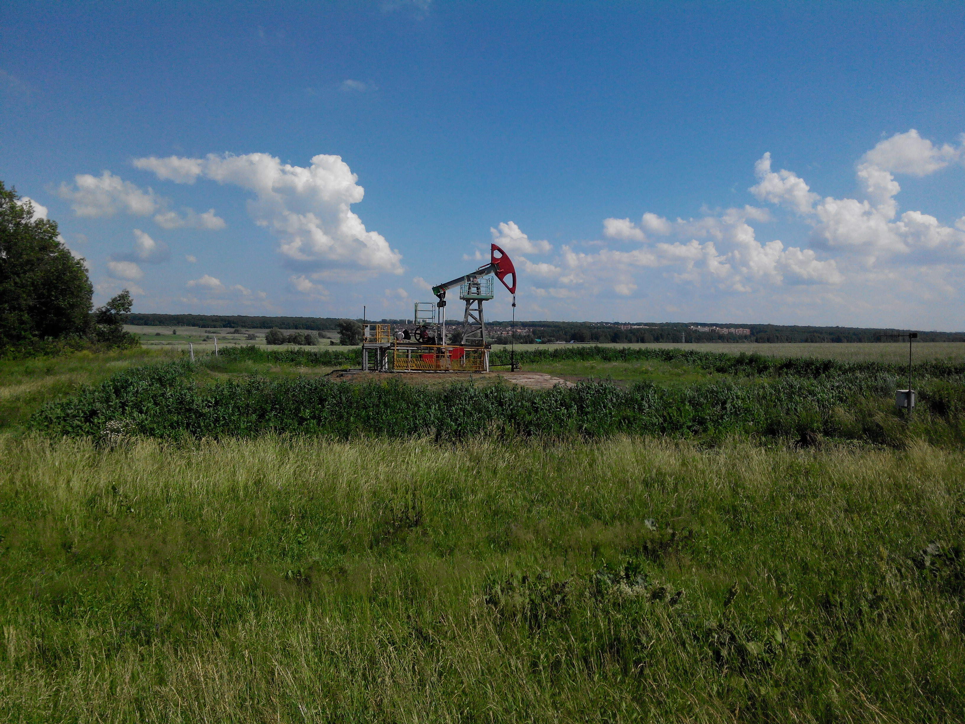 291th rocking machine of Bashneft near village Mudarisovo